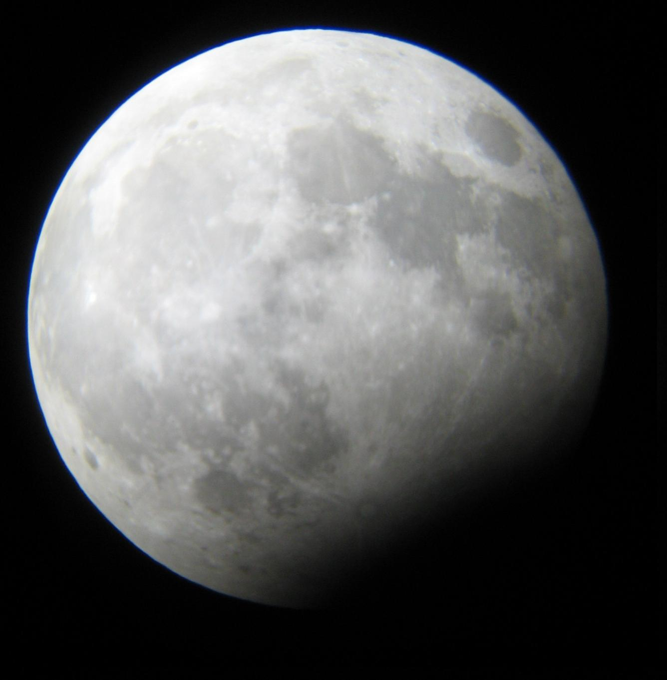 The maximum of the partial lunar eclipse